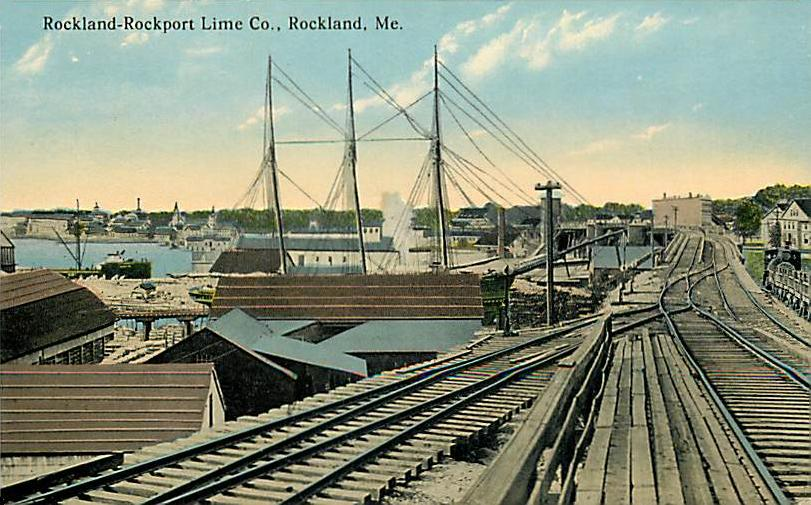 Rockland-Rockport Lime Company, Rockland, Maine